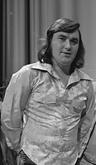 Jaap Schilder from The Cats